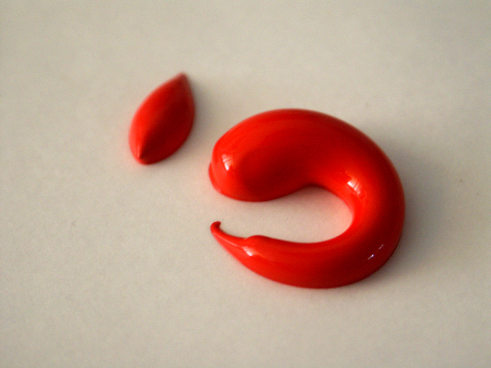 Acrylic paint red pyrrole dab